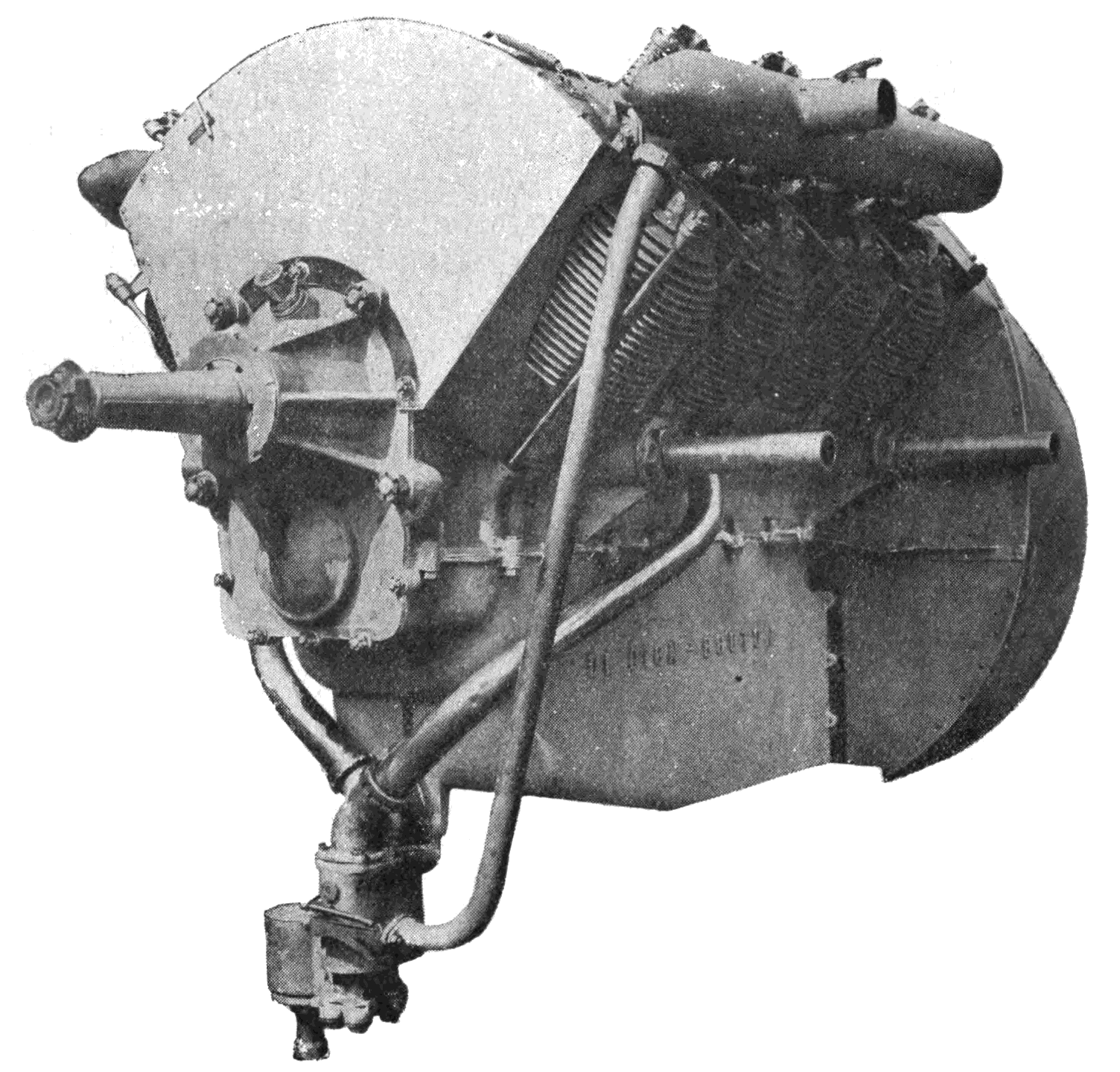 De Dion-Bouton 80 hp V-8 aircraft engine (1913)